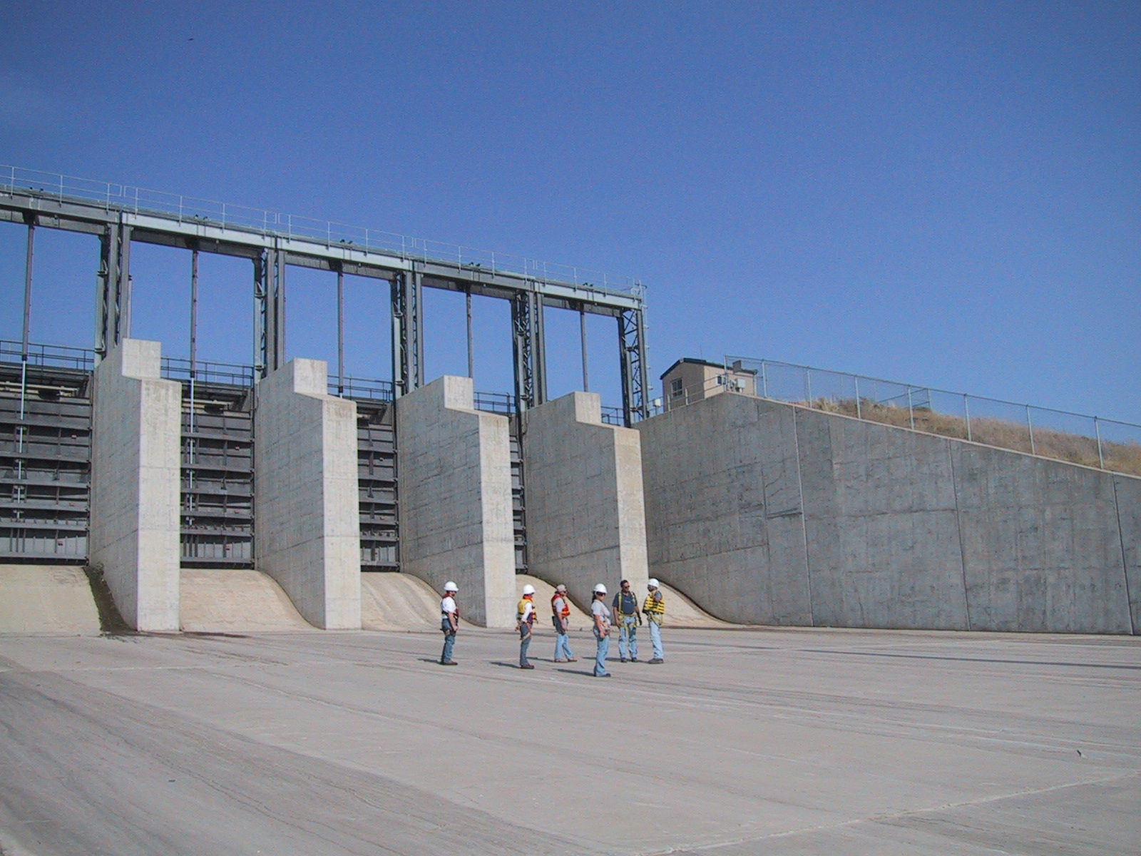 Spillway at Alameda Dam, near Estevan Saskatchewan, showing hydraulically operated vertical lift gates. September, 2006.